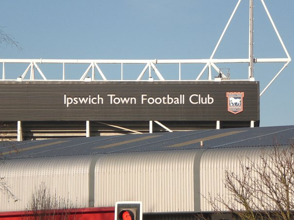 Portman Road 2009